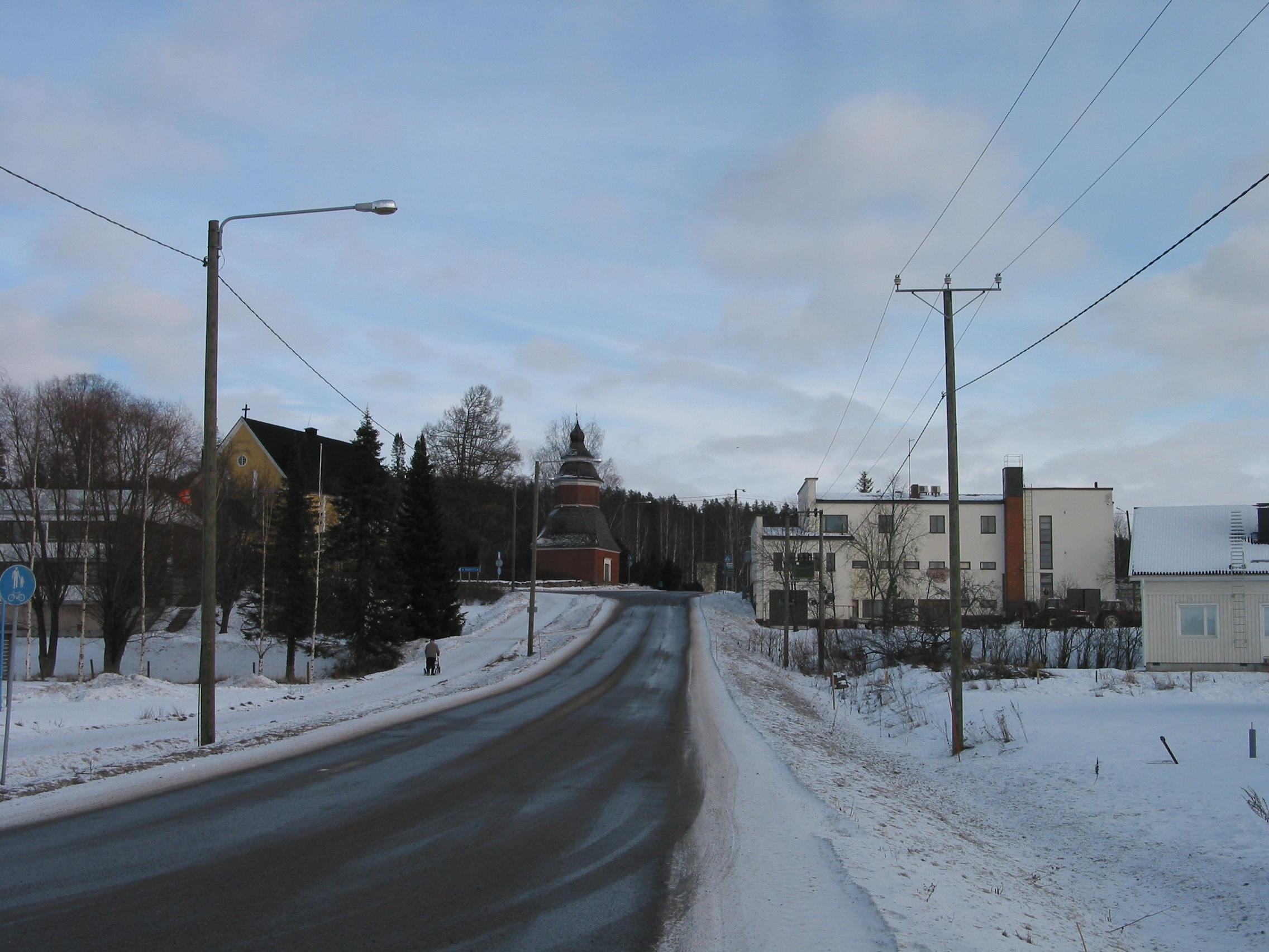 Pusula Village, Nummi-Pusula, Uusimaa, Finland